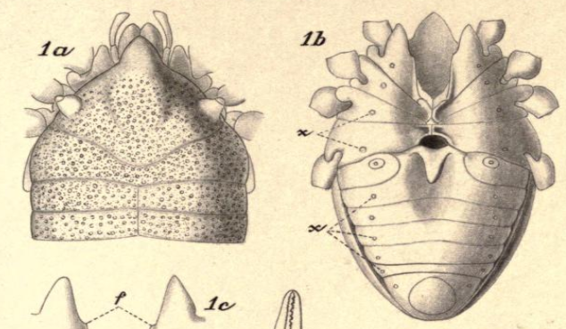 Original illustration of Ogovea nasuta, with Hansen's organs pointed out